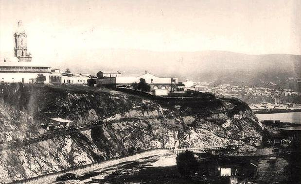 View from Cerro Placeres